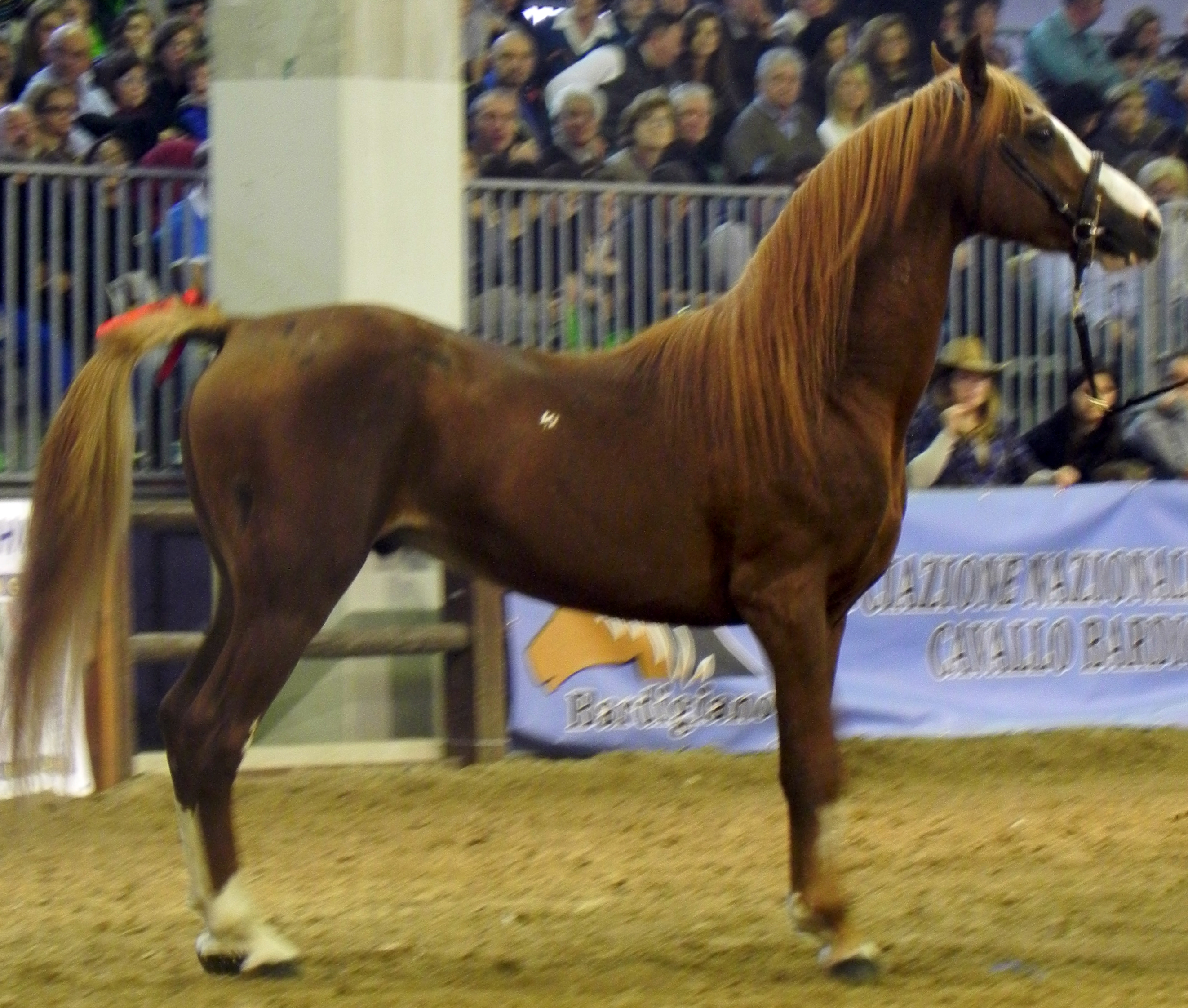 Persano stallion, photographed at Fieracavalli, Verona, Italy, on 9 November 2014.